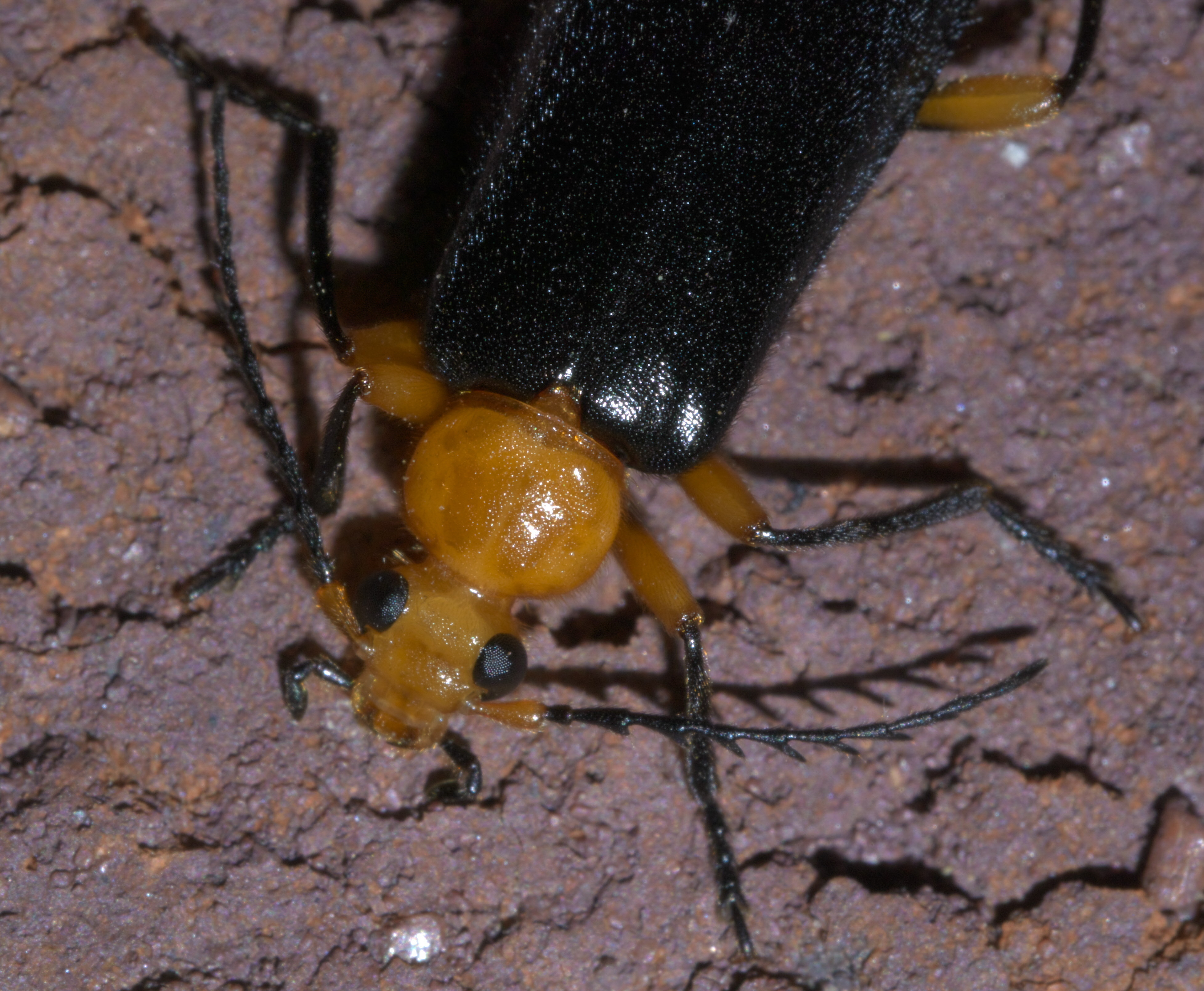 Neopyrochroa femoralis, Family: Fire-Colored Beetles, ID Confidence: 98